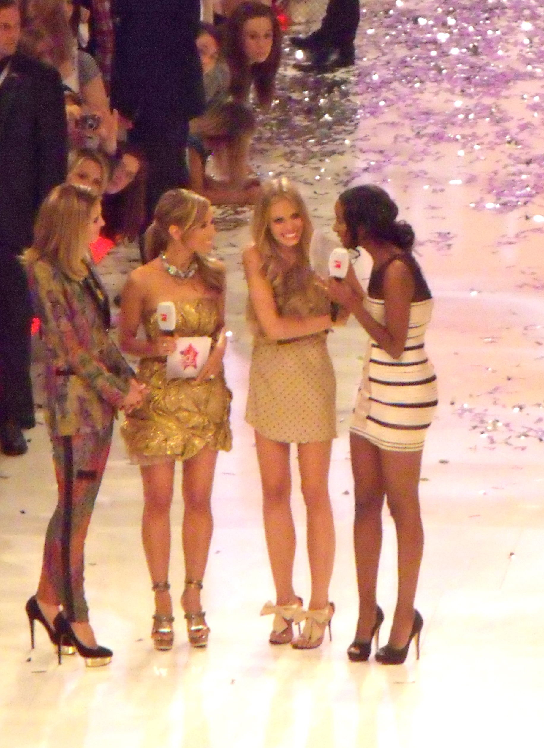 Heidi Klum, Annemarie Warnkross, Jana Beller and Sara Nuru